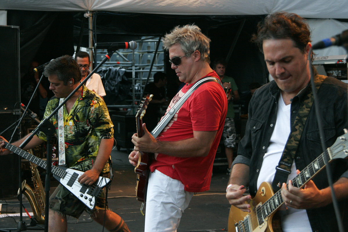 Los Perico's performance.